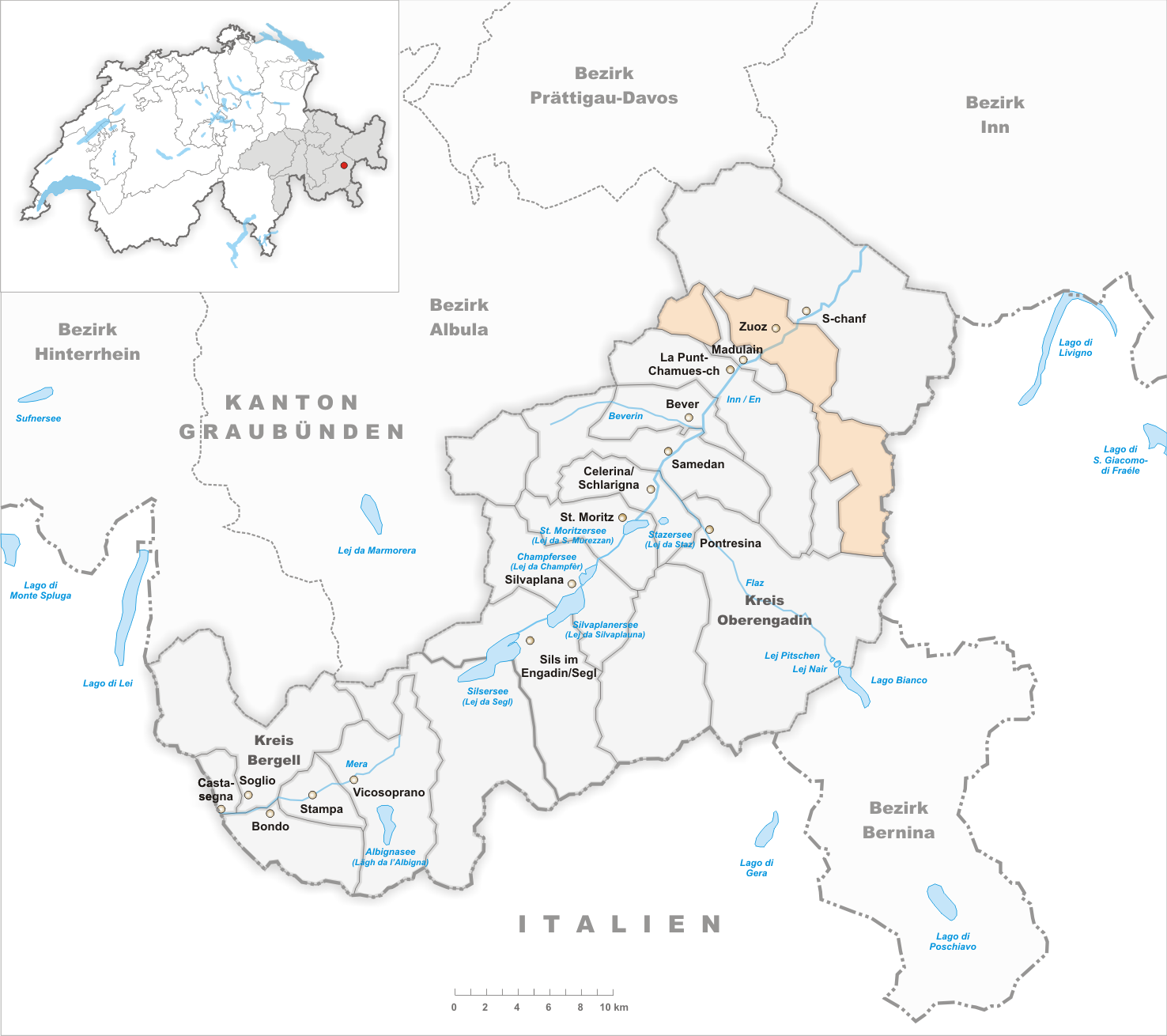 Municipality Zuoz